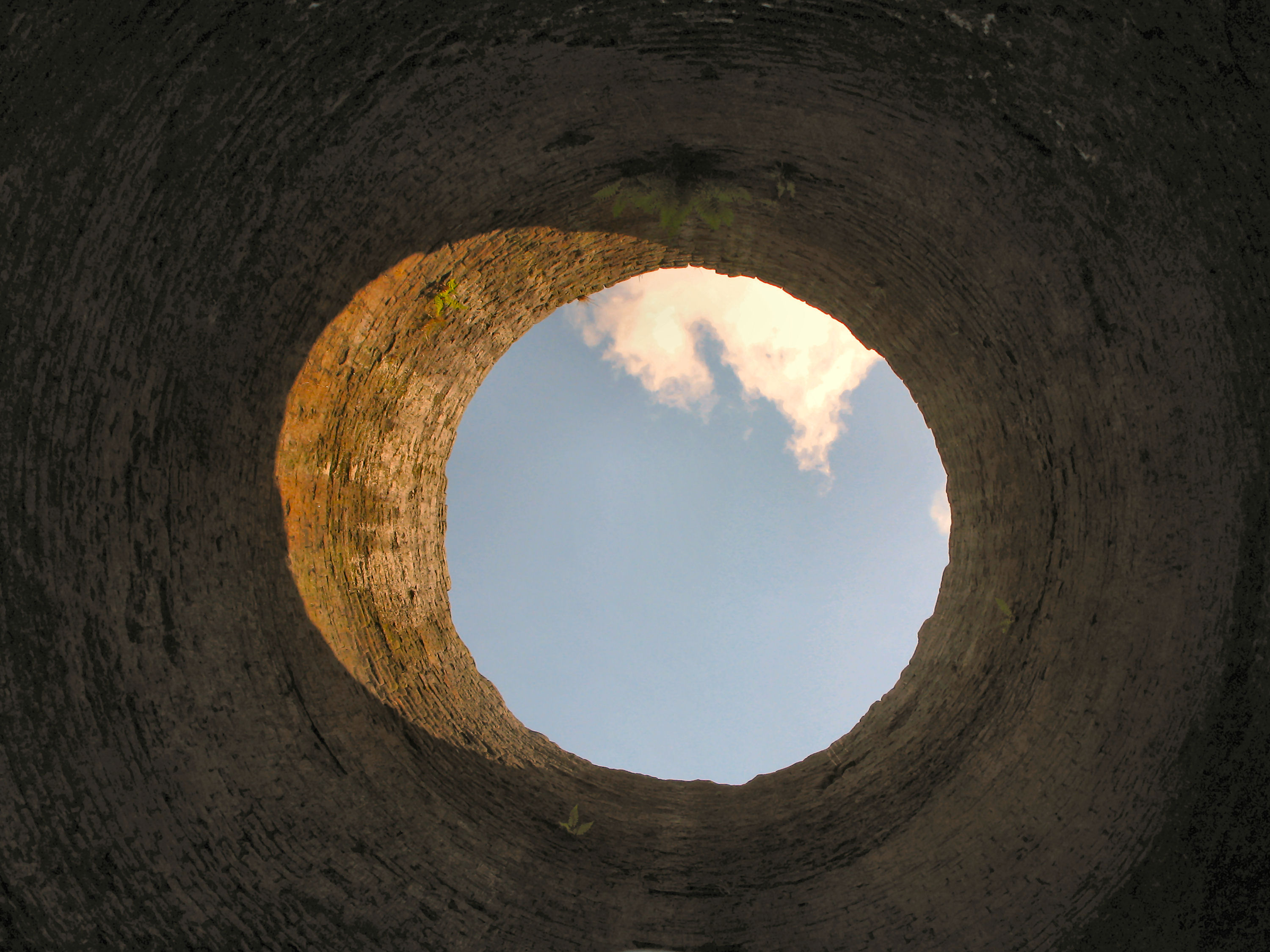 A furnace chimney at Blaenafon Ironworks, Wales, UK.